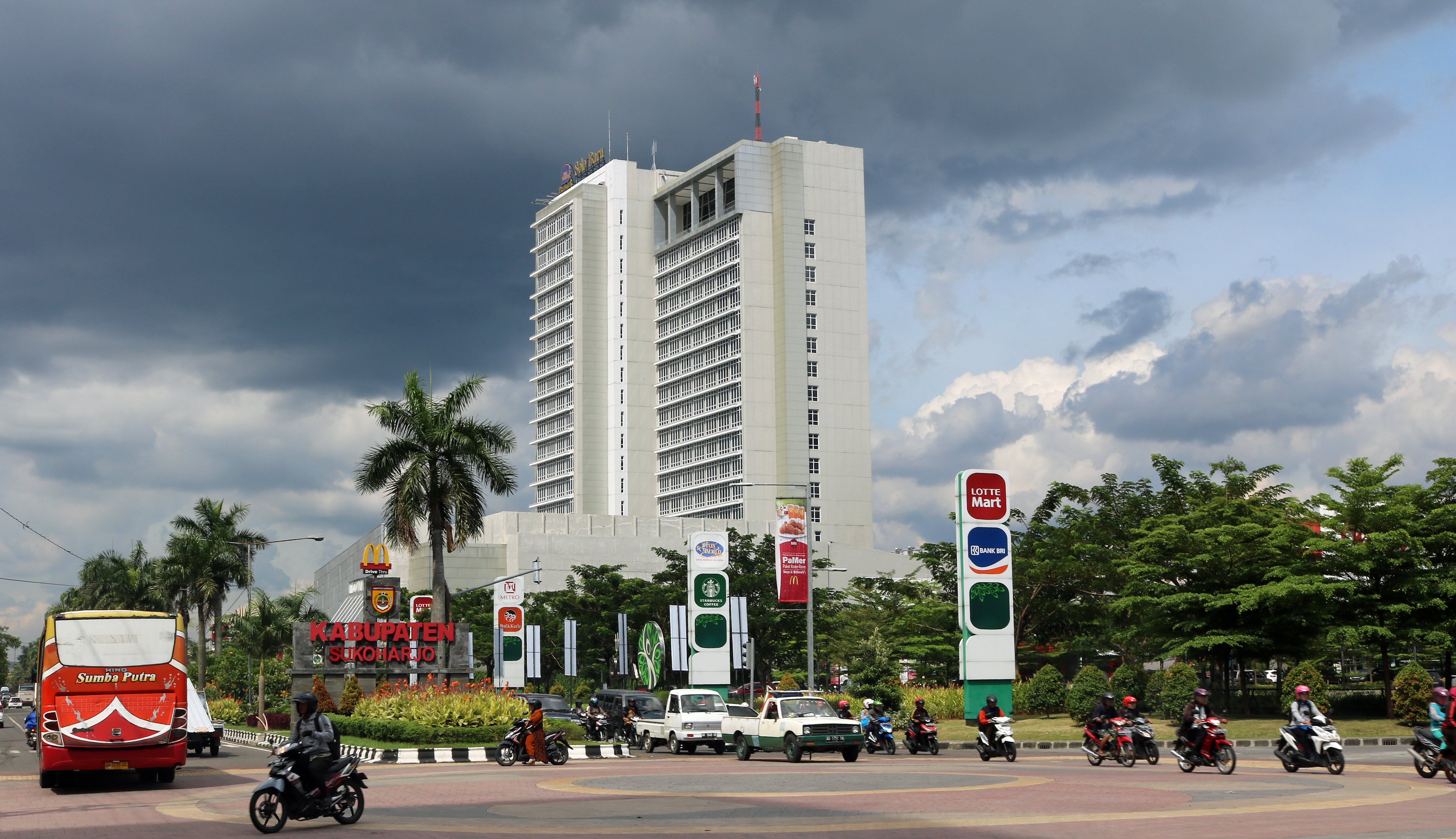 The Best Western Premier Solo Baru Hotel in Sukoharjo Regency, Central Java, Indonesia. A sign in the picture marks the border of the Kabupaten Sukoharjo (Sukoharjo Regency).